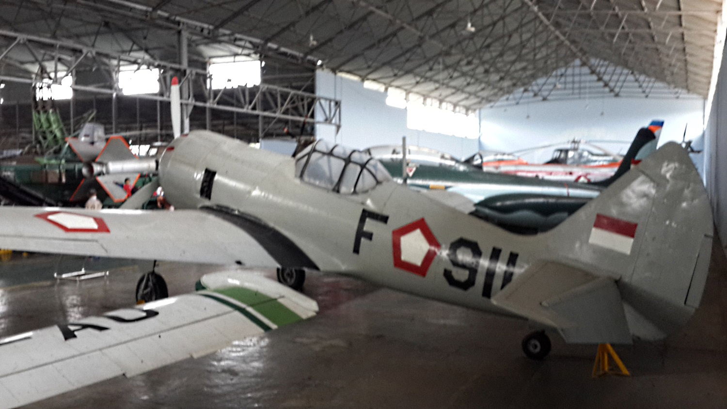 Lavochkin La-11 in the Indonesian Air force Museum, Yoygyakarta (unoriginal canopy)